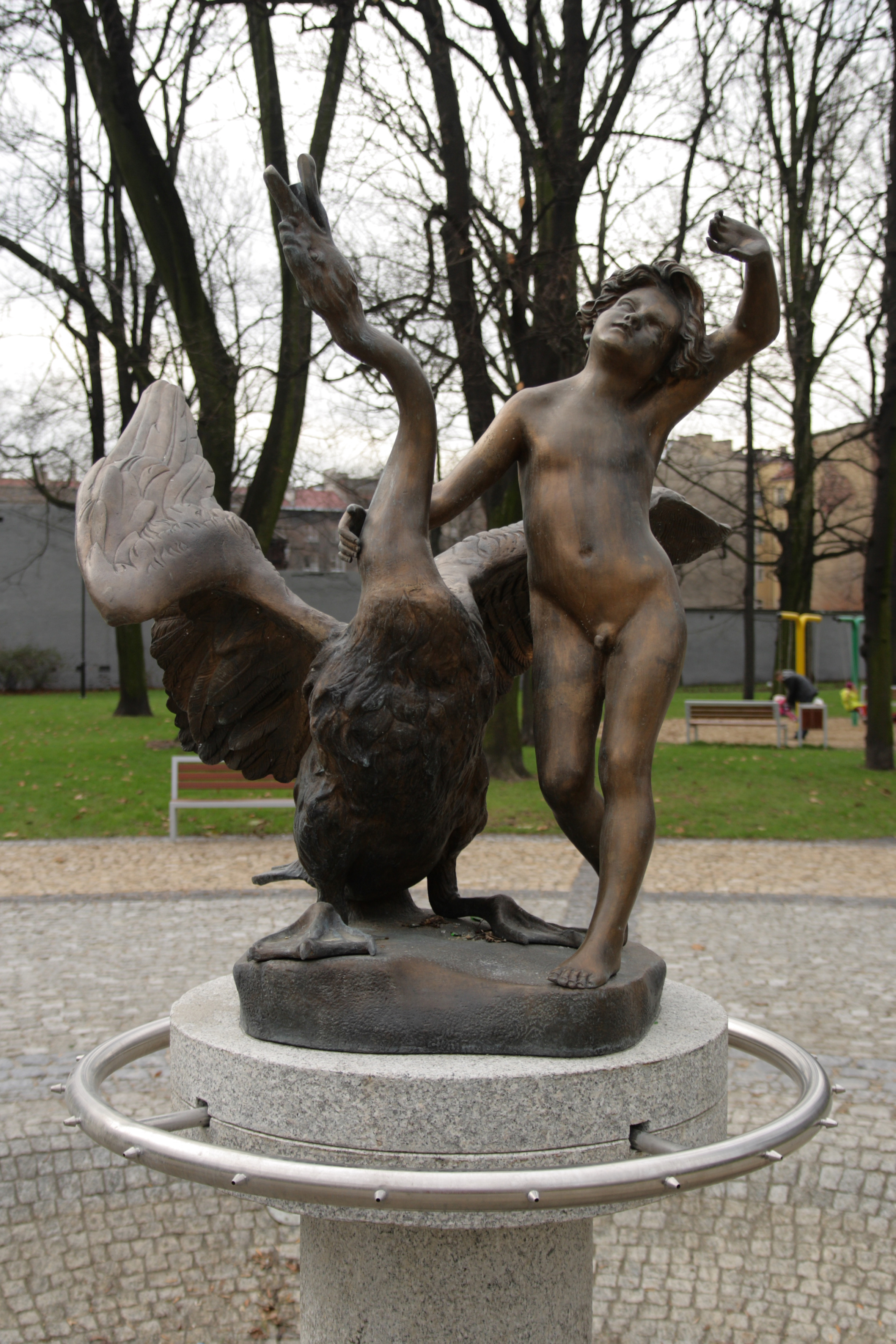 Statue "Boy with a Swan" by Theodor Erdman Kalide (Gliwice, Poland).